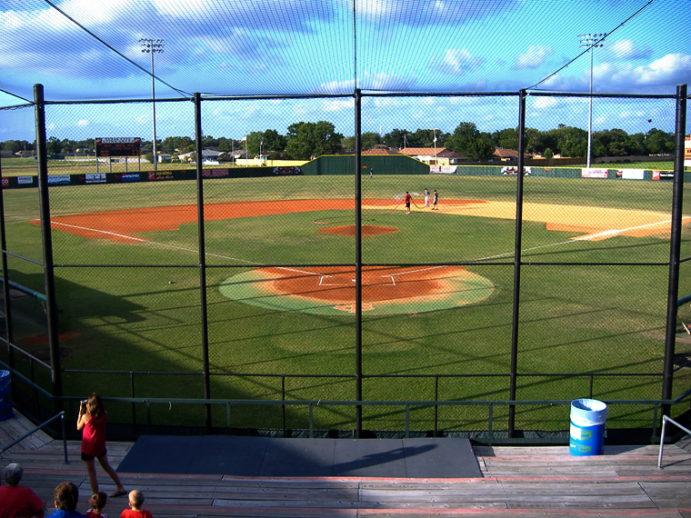 Robinson Stadium in Texas City, Texas. Home of the Texas City High School Stings and the Bay Area Toros minor league team.